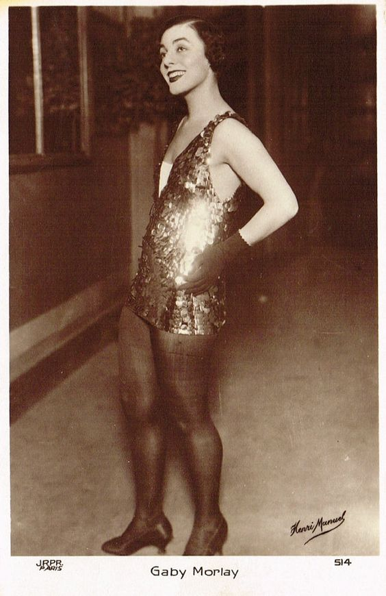 Henri Manuel (24 April 1874, Paris – 11 September 1947, Neuilly-sur-Seine) was a Parisian photographer who served as the official photographer of the French government from 1914 to 1944.